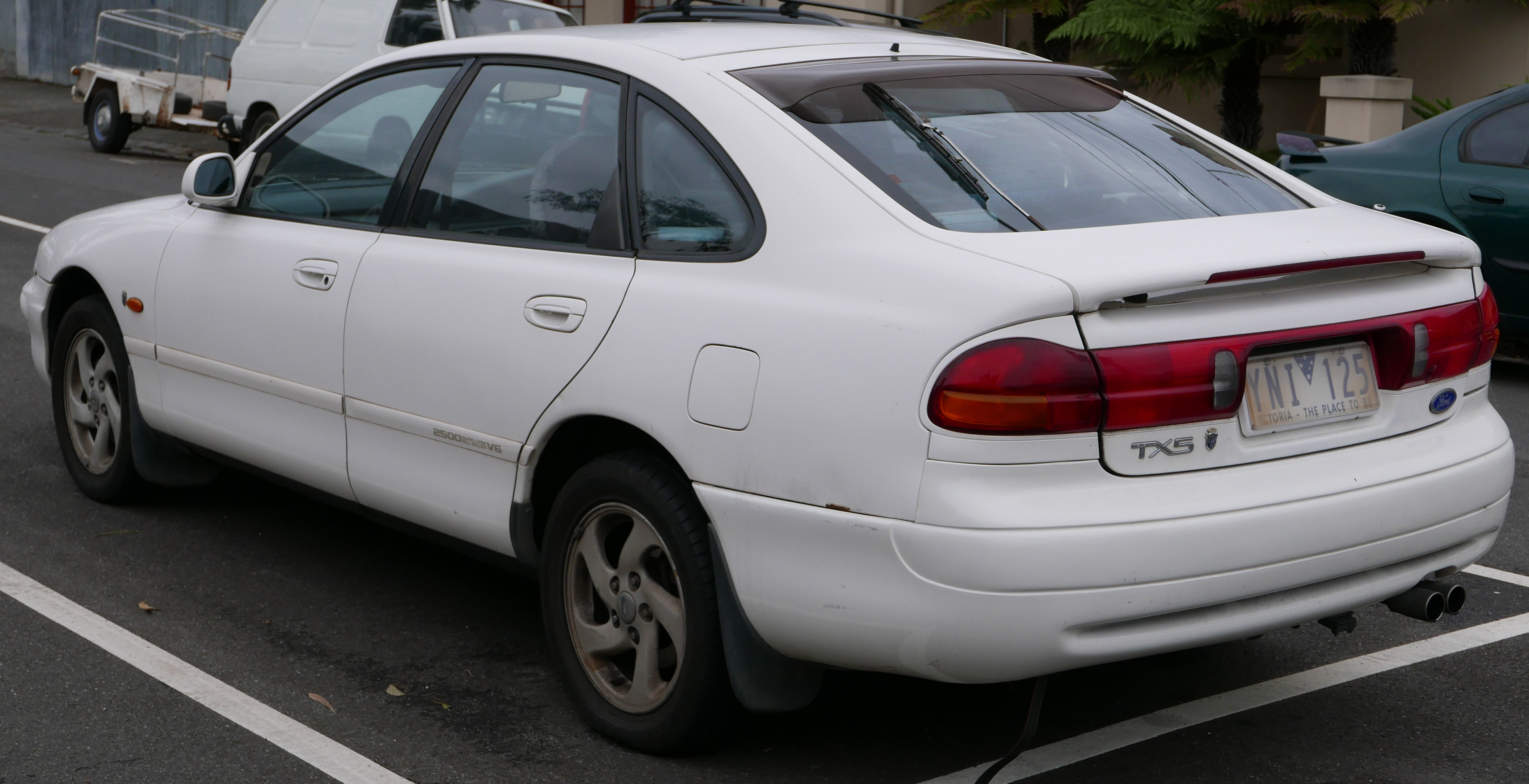 1995 Ford Telstar TX5 (AY) Ghia V6 hatchback. Photographed in Carlton North, Victoria, Australia. Vehicle registration enquiry results Jurisdiction Victoria Registration YNI125 Chassis code JC0AAASHWURG67118 Engine code KL566554 Compliance date 1995-01 Year of manufacture 1995